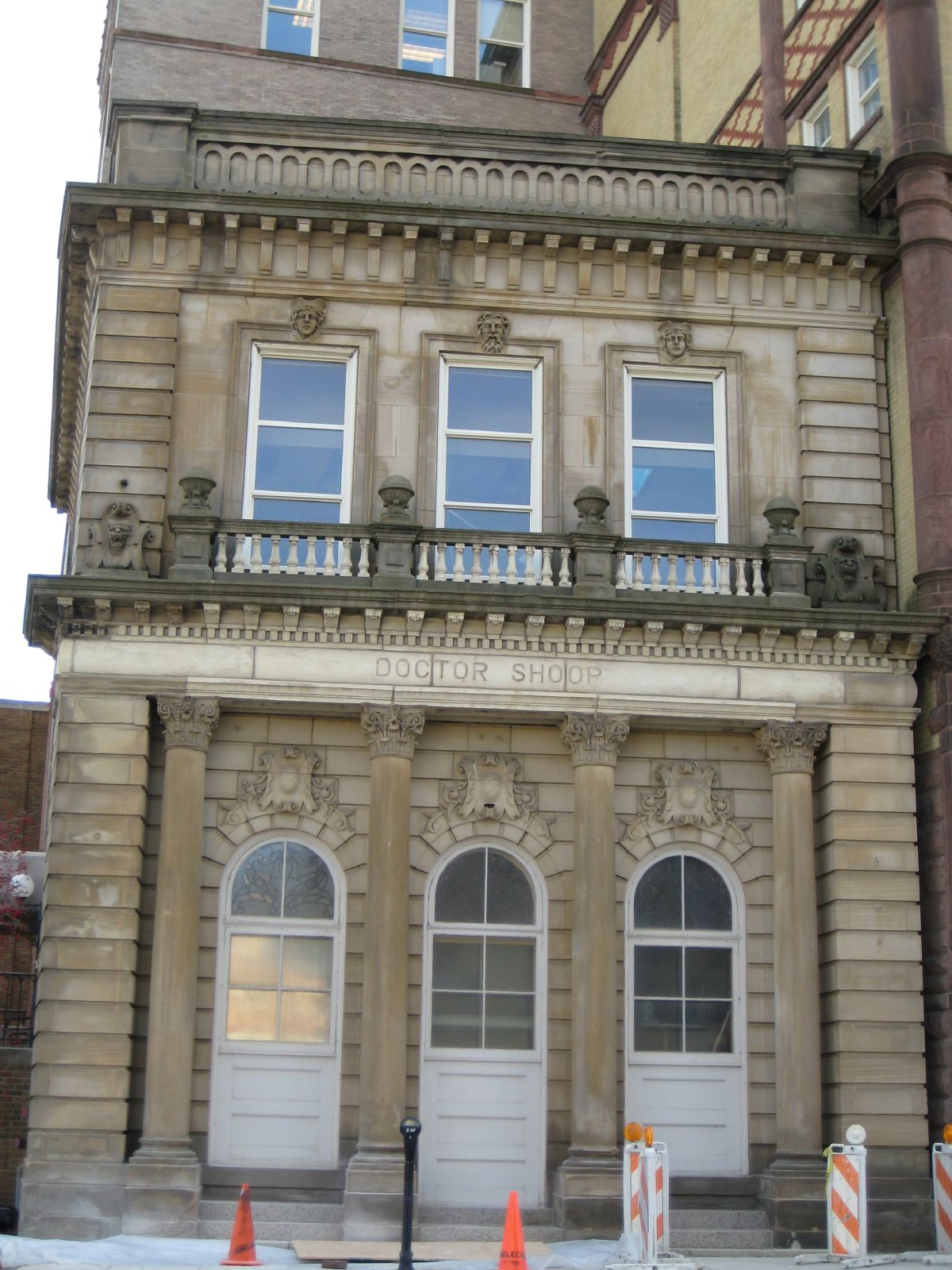 The Shoop Building in Racine, Wisconsin, listed on the National Register of Historic Places.